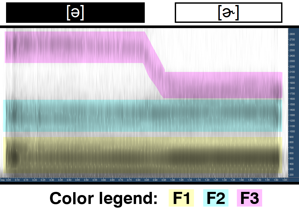 Spectogram of r colored vowel